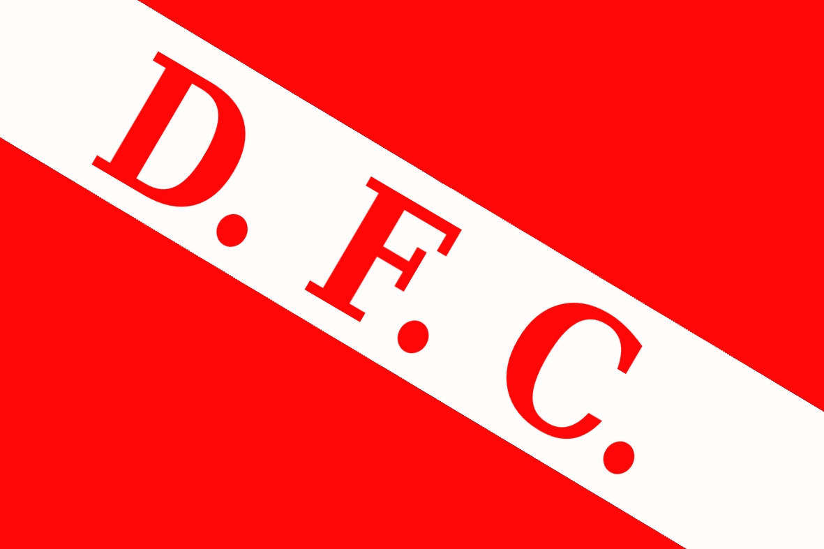 This is the flag of the Dublin Football Club, a disappeared football team from Uruguay